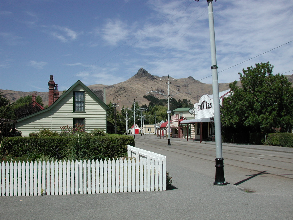 Ferrymead Heritage Park's main street with tram tracks, Port Hills in the background.